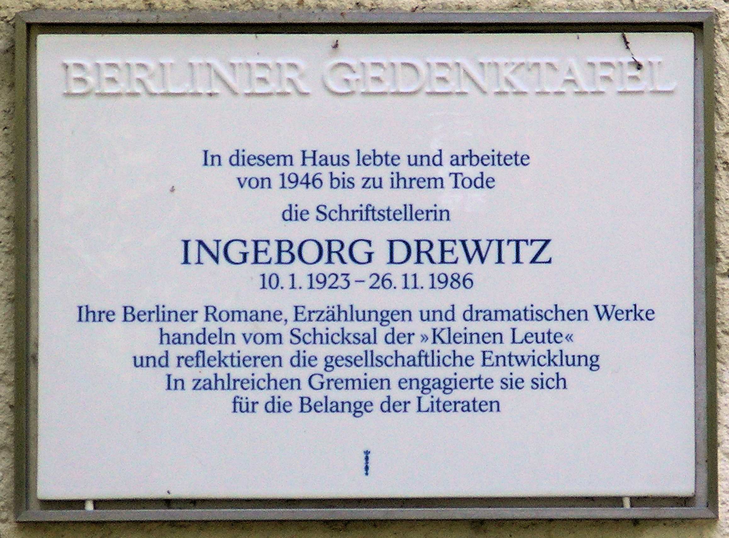 Berlin memorial plaque, Ingeborg Drewitz, Quermatenweg 178, Berlin-Zehlendorf, Germany Koordinate:52°27′12.6″N 13°14′55.4″E / 52.4535°N 13.248722°E